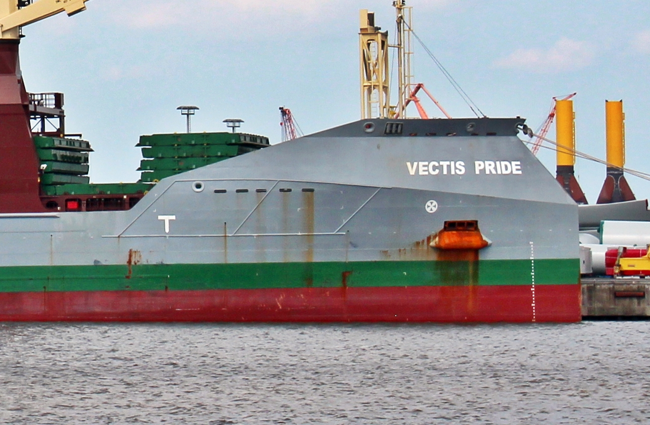 The Groot Cross Bow of the Freighter Vectis Pride